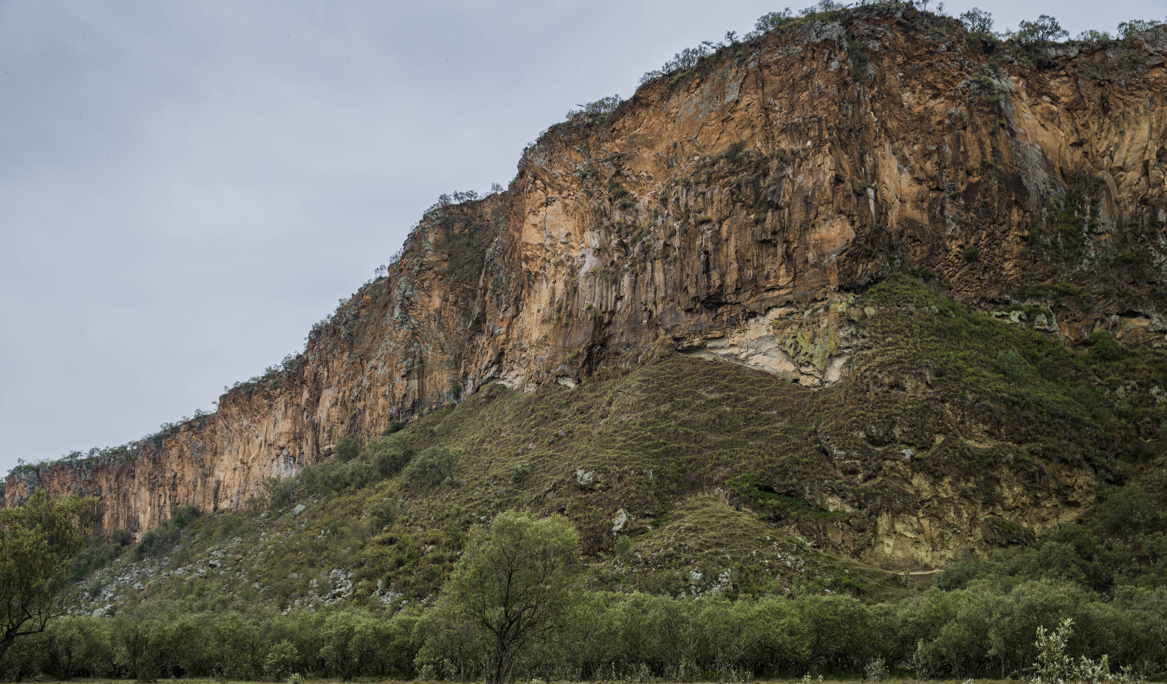 Do you remember the Lion King? Hell's Gate National Park, Naivasha, Kenya. The main setting of the 1994 film, The Lion King is heavily modelled after the park, where several lead crew members of the film went to the park to study and gain an appreciation of the environment for the film. (Wikipedia)